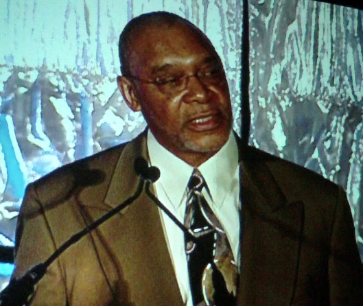 Vince Matthews at his induction the National Track and Field Hall of Fame.